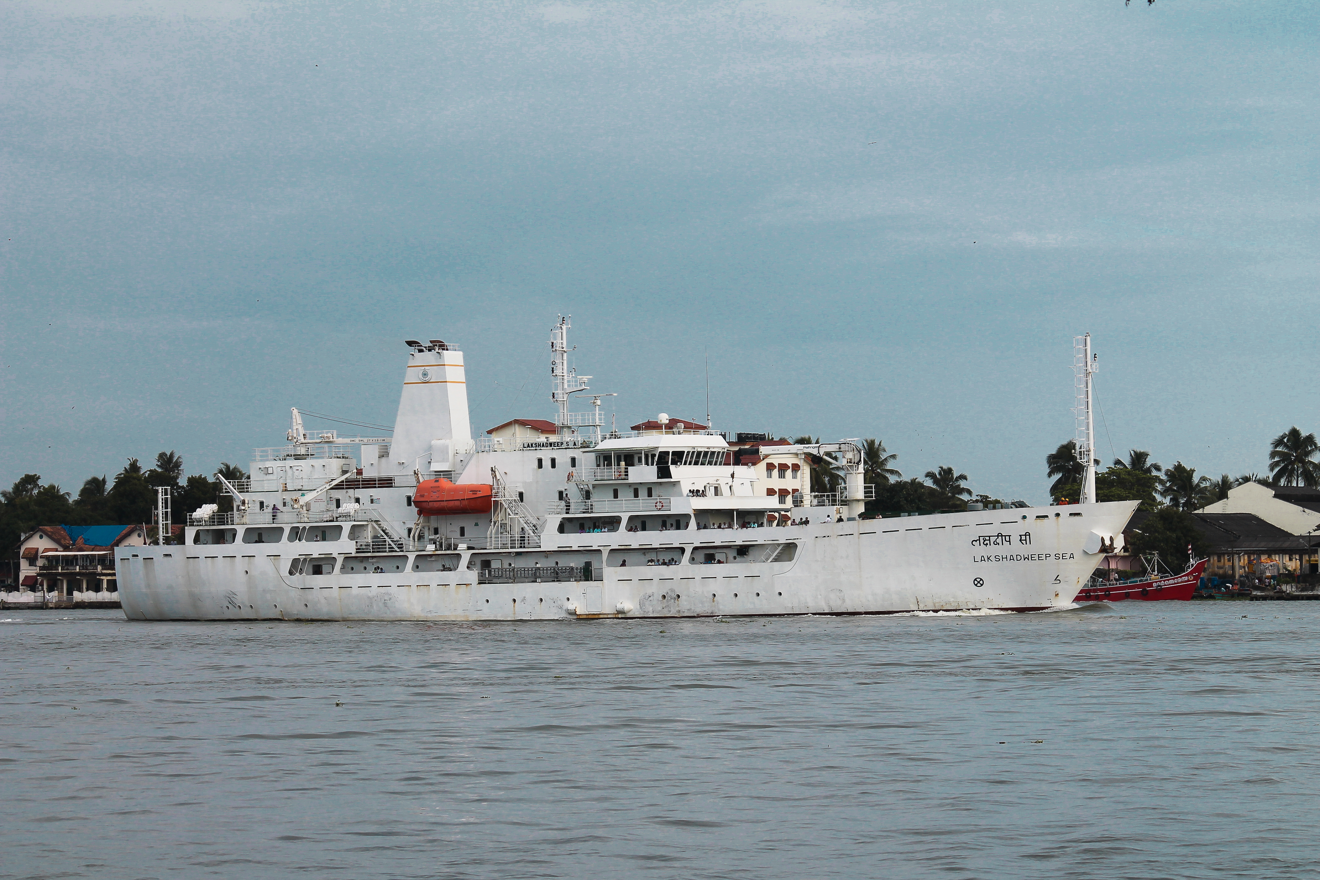 The Lakshadweep Sea Ship. Kochi, Kerala, India